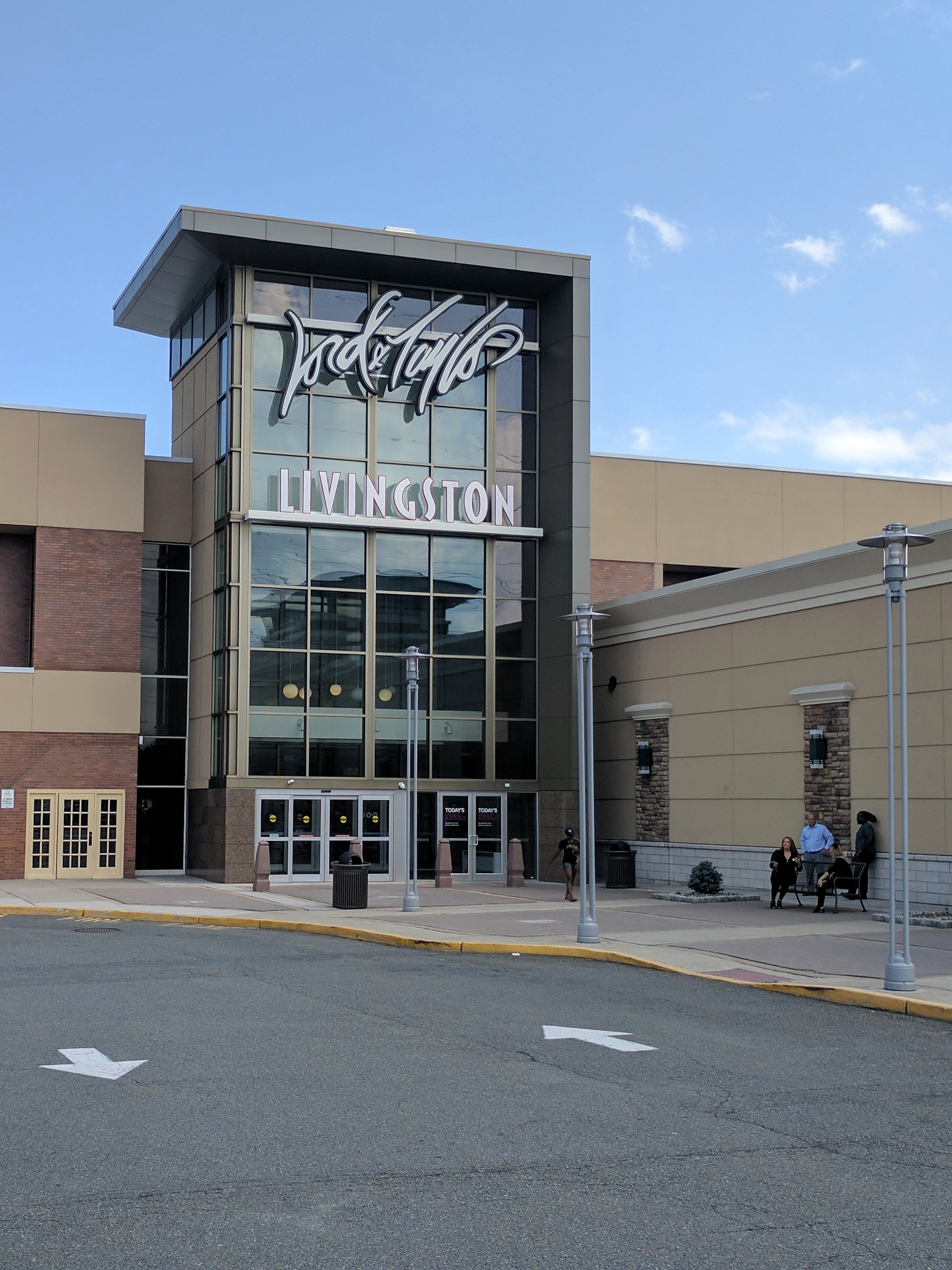 A picture of a main entrance to the Simon Properties owned Livingston Mall in Livingston, NJ, US.